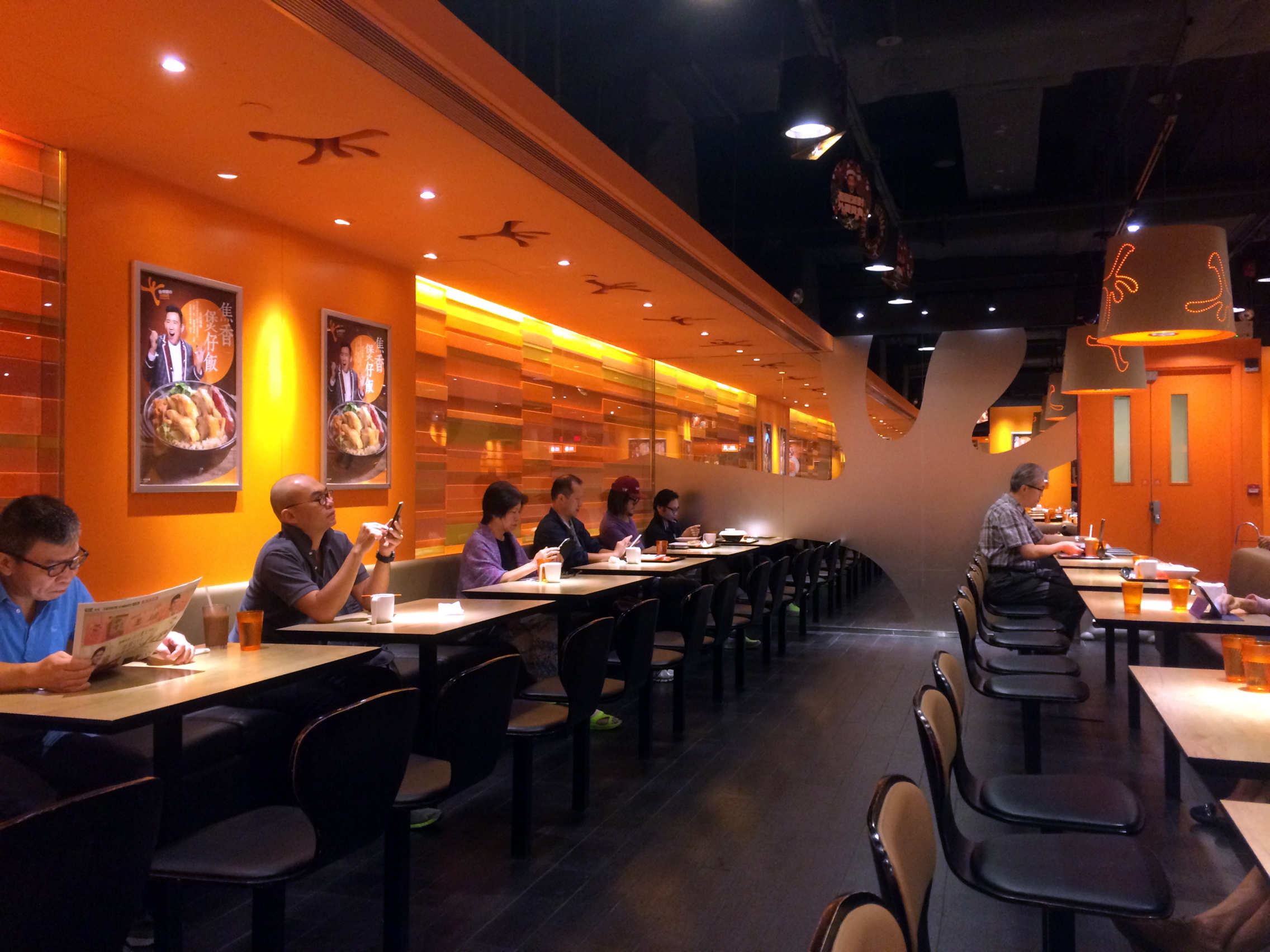 Fairwood interior